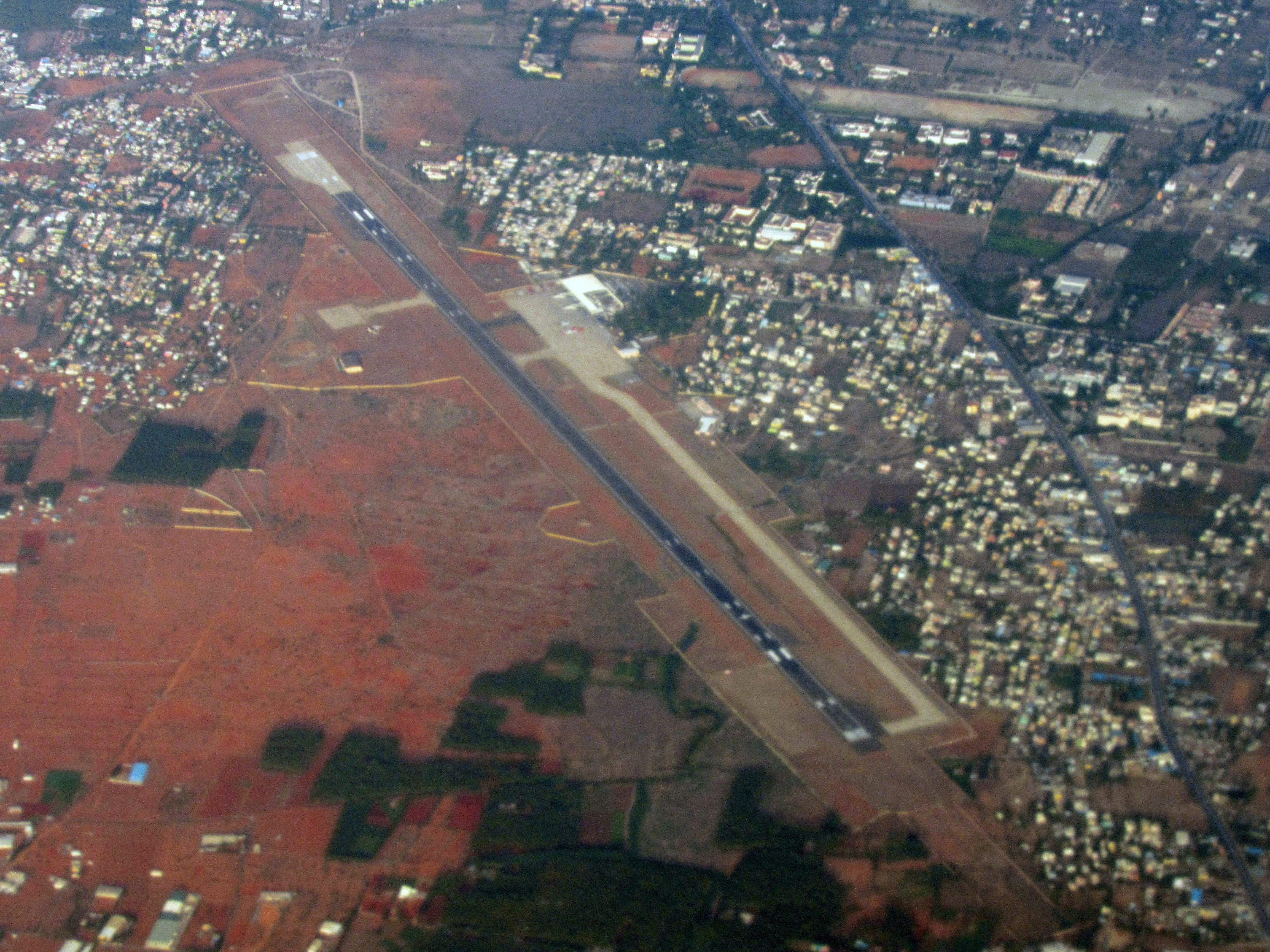 Aerial photo of Coimbatore International Airport, India.